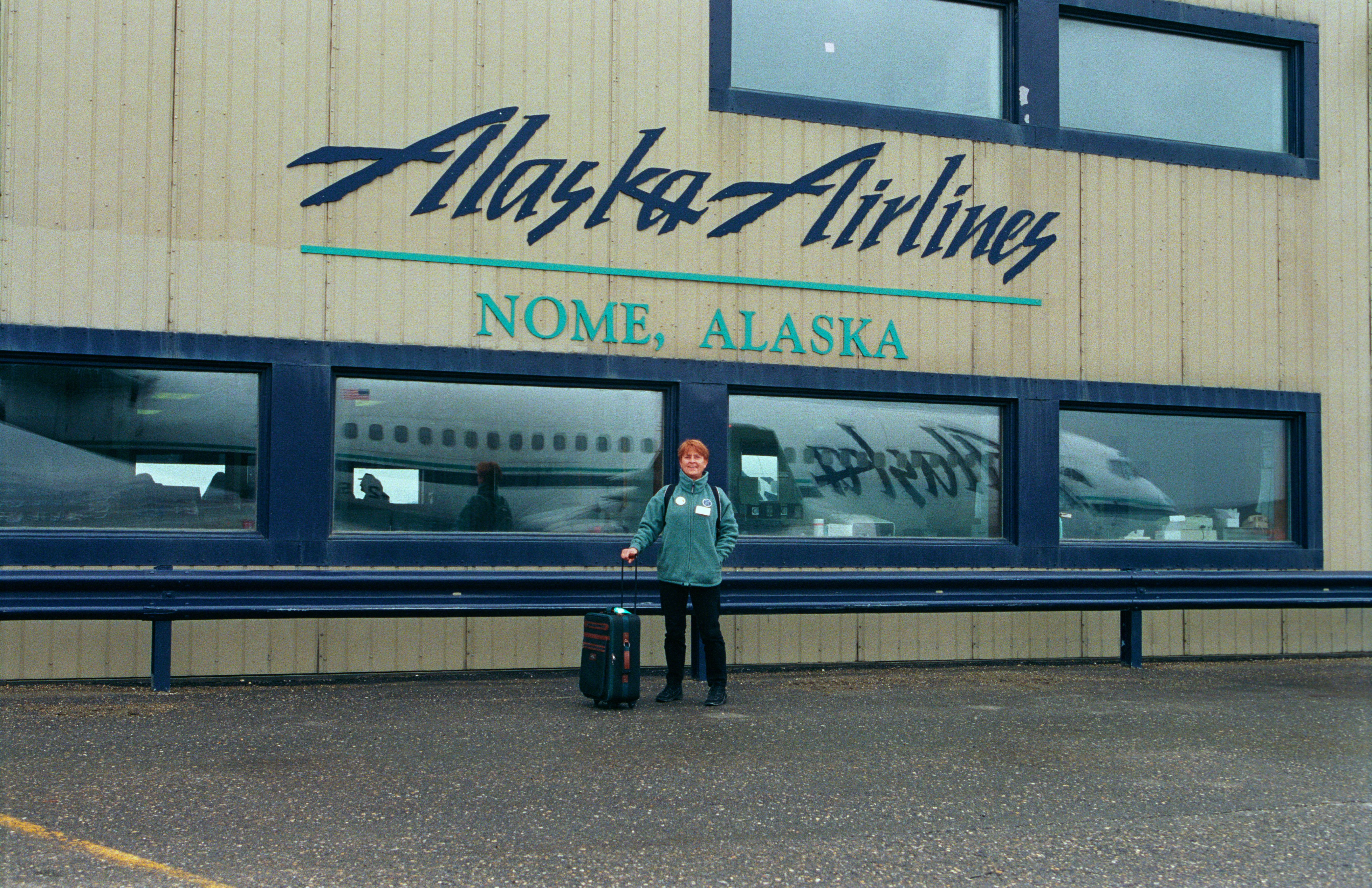 Nome Airport